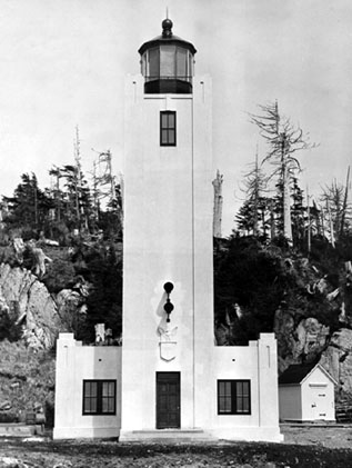 Public Domain statement here; The Tree Point Light is a lighthouse located adjacent to Revillagigedo Channel in southeastern Alaska, USA. It is located near the southernmost point of mainland Alaska.